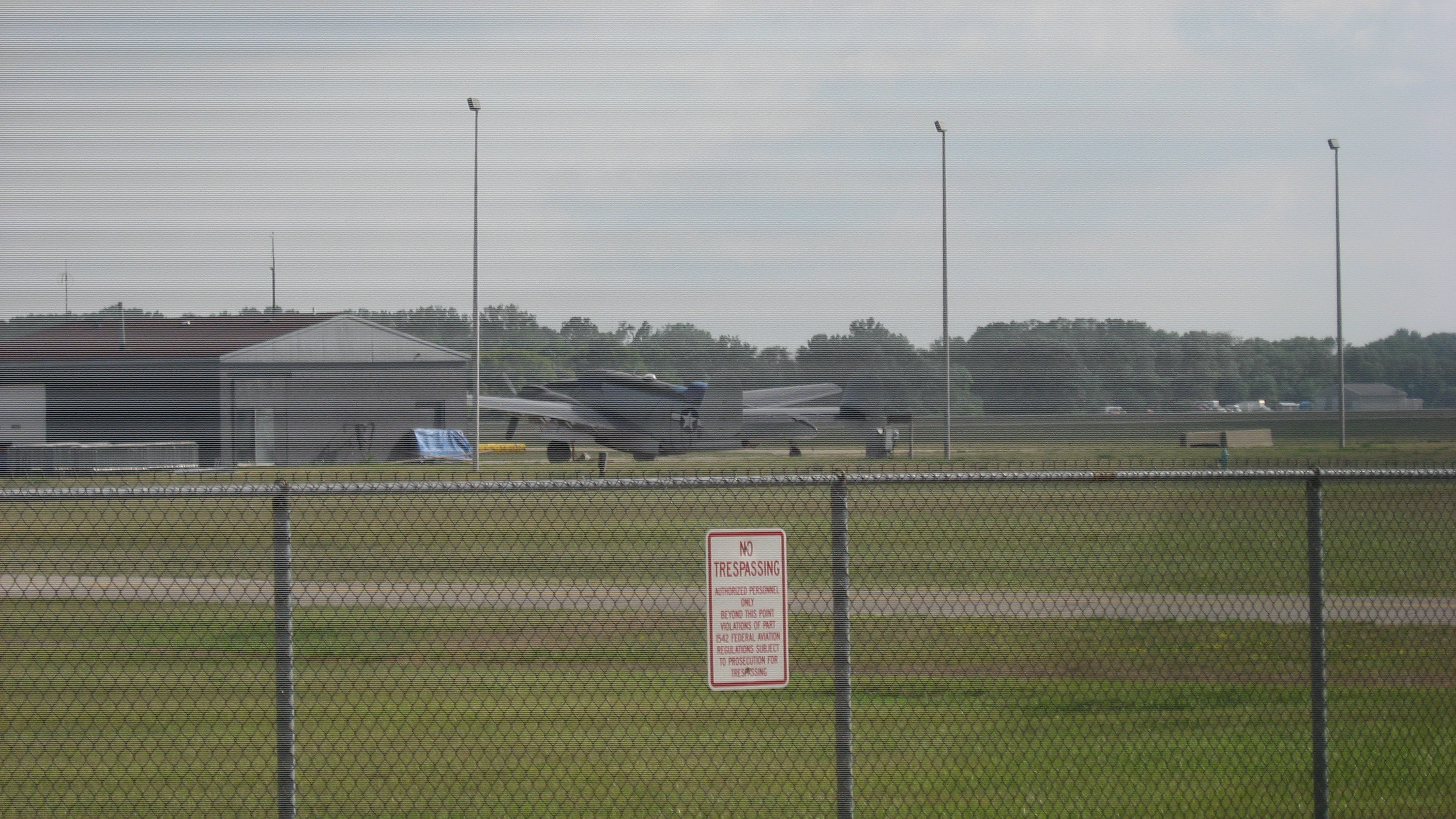 Distant view of the Lockheed PV-2 Harpoon No. 37396, a Lockheed Ventura aircraft based at the Indianapolis Regional Airport in Buck Creek Township, Hancock County, Indiana, United States. Built in 1910, it is listed on the National Register of Historic Places.